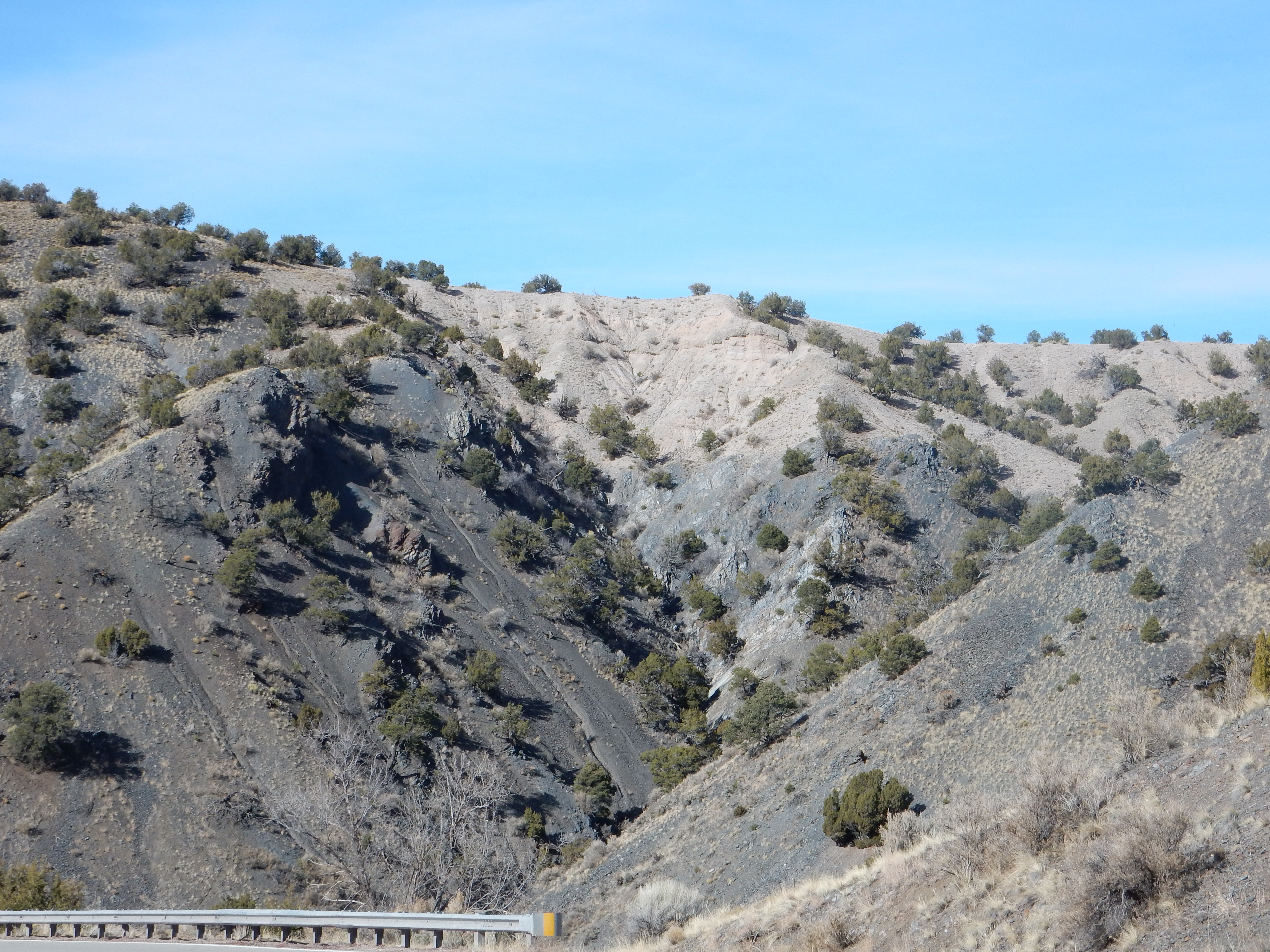 This image shows dark carbonaceous phyllite beds of the Pilar Formation, with a cover of young alluvium, in the Picuris Mountains, New Mexico, United States.